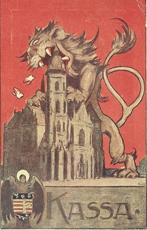 Horthy propaganda, Košice